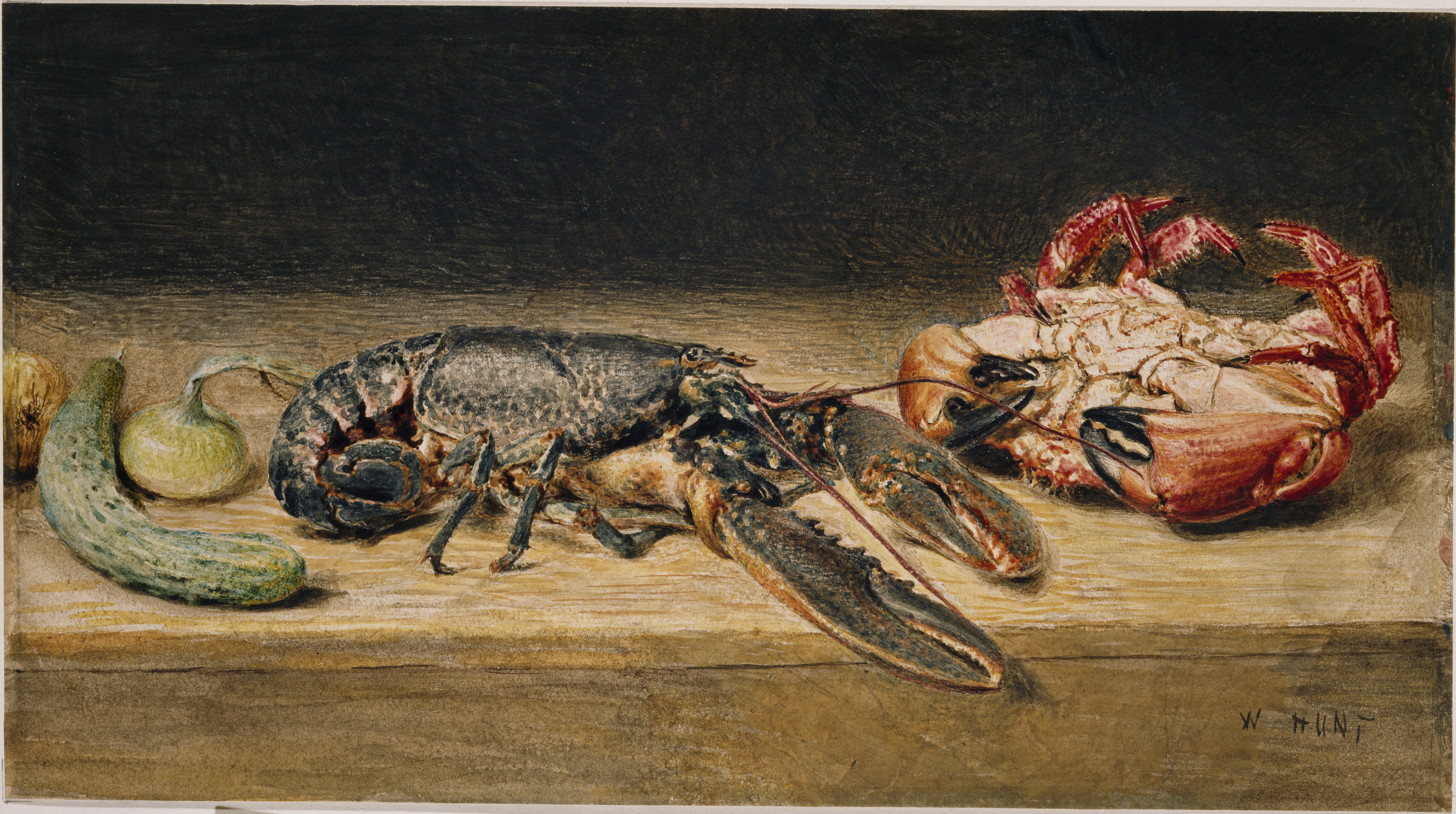 Painting by William Henry Hunt